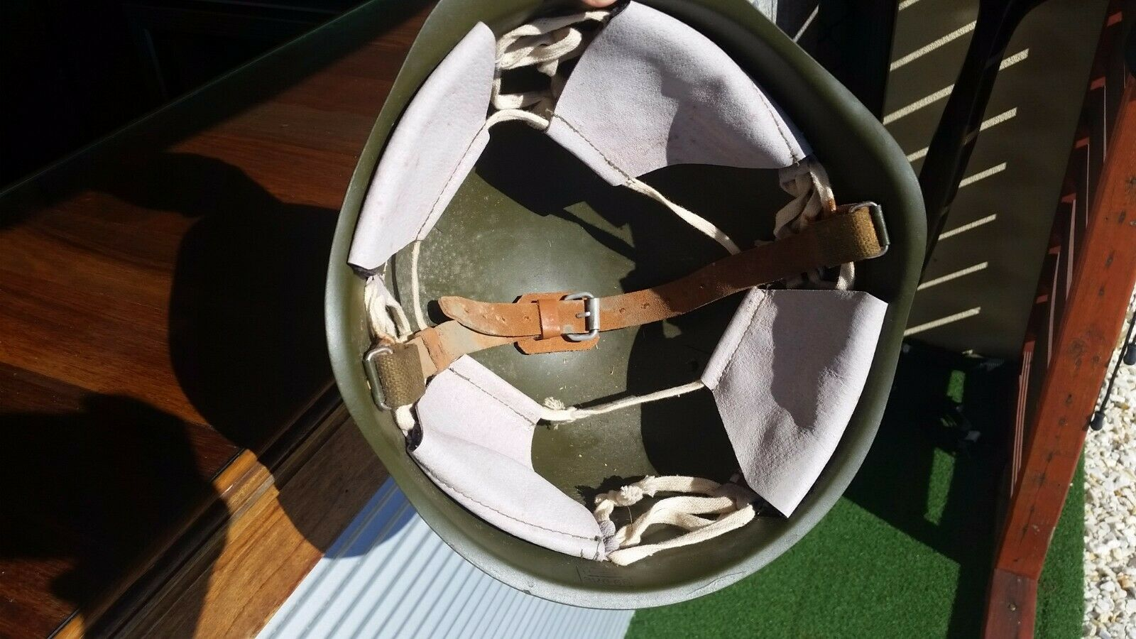 Export Helmet sold to countries looking for a new military helmet in the 1960s